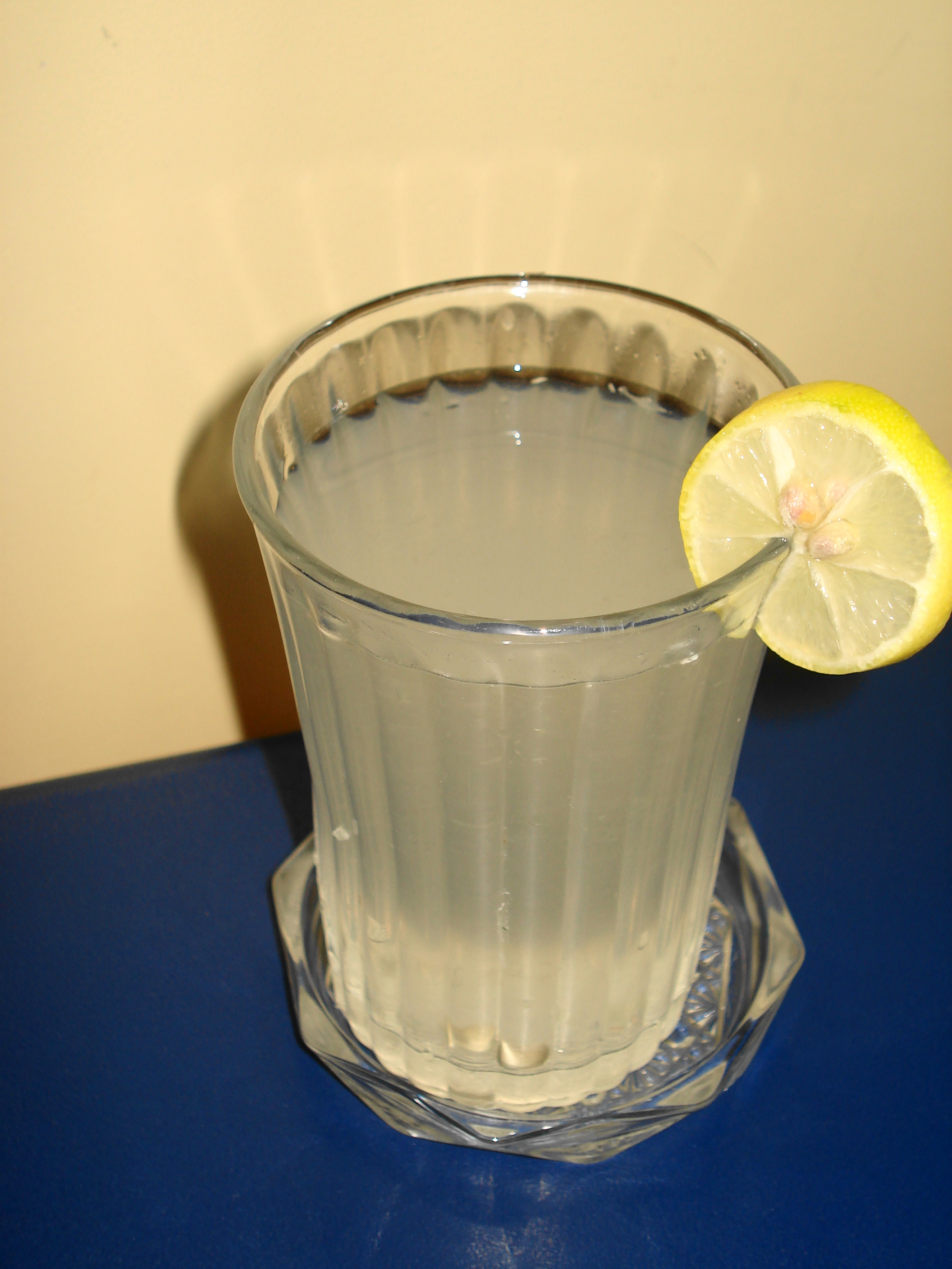 Limo pani, lemonade are the other names of this recipe